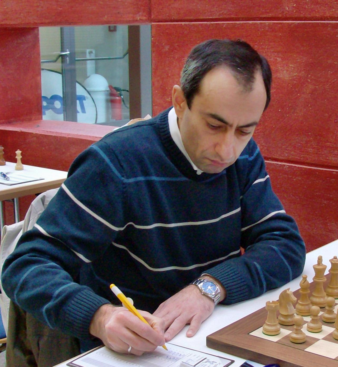 Alexander Berelovich, chess grandmaster